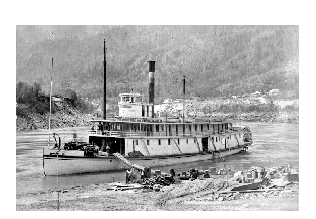 R.P. Rithet sternwheel steamer, at Yale on Fraser River, 1882